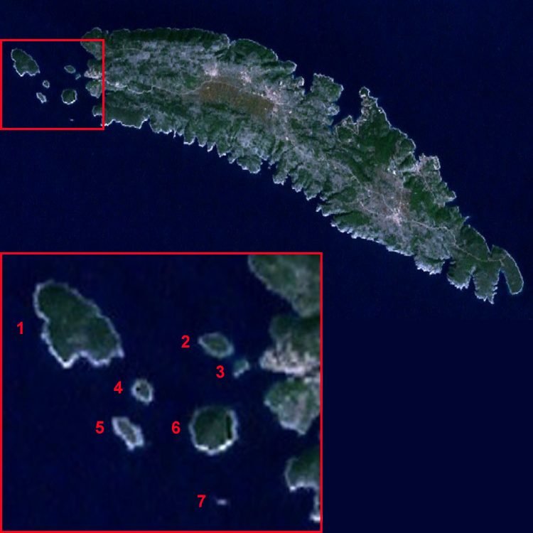 Annotated satelite image of island Šolta and group of small islands on the west.